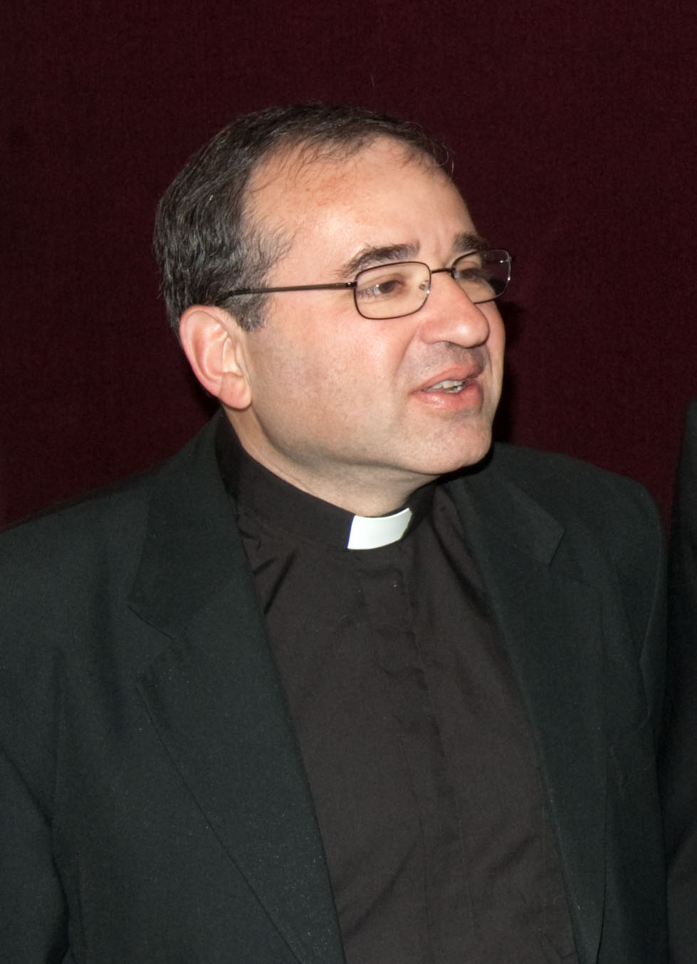 Fr. Josè Funes SJ, director of the Vatican Observatory.